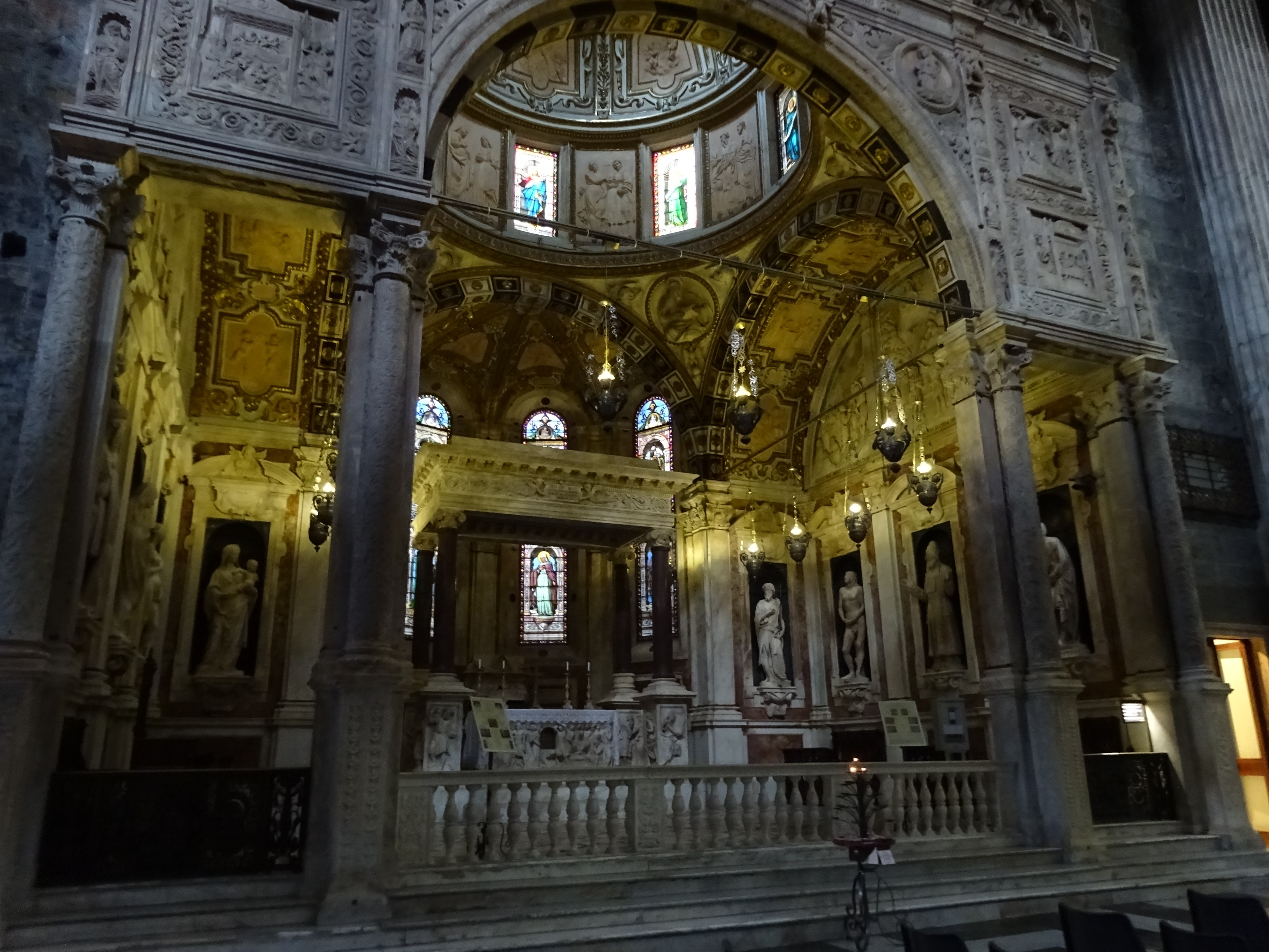 St. John's Chapel in Genoa Cathedral